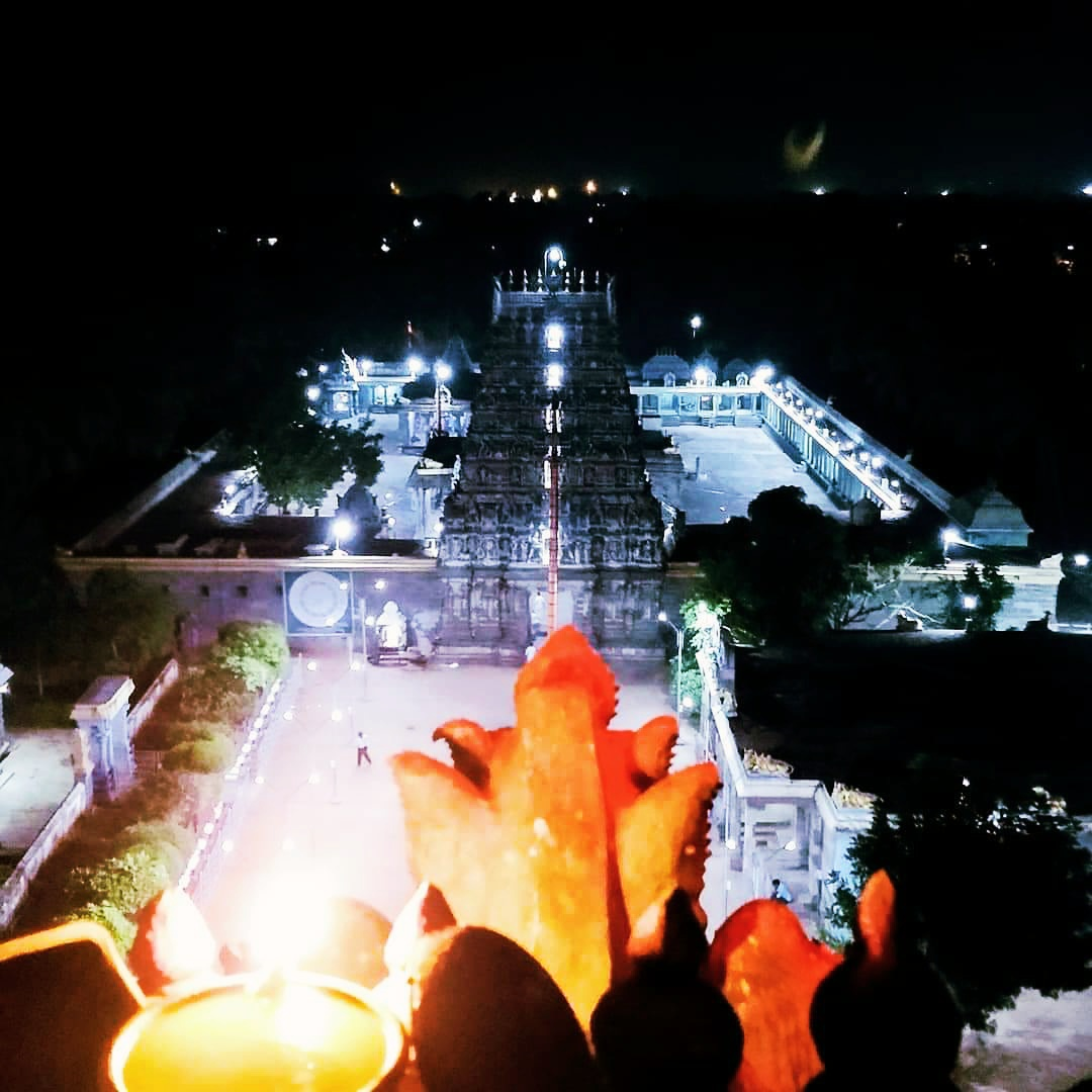 Panruti Thiruvathigai Periya Koil ( Temple) Night view.